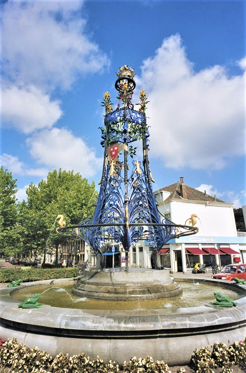 The Wilhelmina fountain is a monument in the Dutch city Breda, in the province North-Brabant. The fountain was placed on the Big Marked of Breda in 1898 on the occasion of the accession to the throne of Queen Wilhelmina. In 1909, it was moved to Sophiastreet. n the Netherlands, various cities are connected to the Royal Family. Breda, profiles itself as the Nassau city of the Netherlands. In the area of ​​the Nassaus there is a lot to see and experience in Breda: there is a lot of special remains from that time: the Castle of Breda, where the Nassaus resided, the Grote Kerk (The Big Church), where 9 Nassaus and the first Prince of Orange are buried under beautiful grave monuments), the Begijnhof, dozens of court houses of members of the household, a hunting lodge, a beautiful city park 't Valkenberg (where the Nassaus had their falcons hunted). The fountain is one of the many Royal monuments of the city.